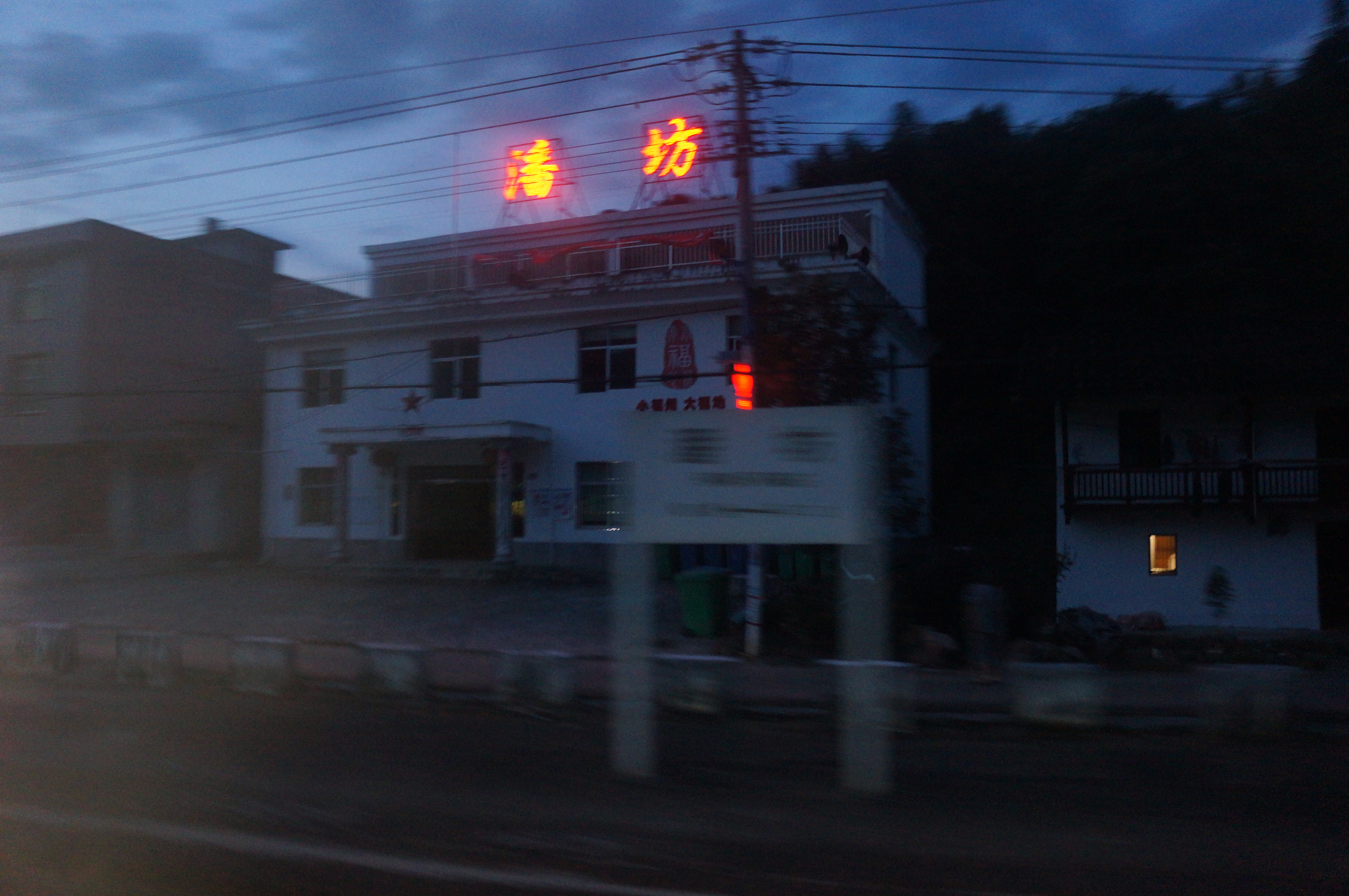 201708 People's Government of Panfang and Panfang Railway Station. The lighting text is really misleading...